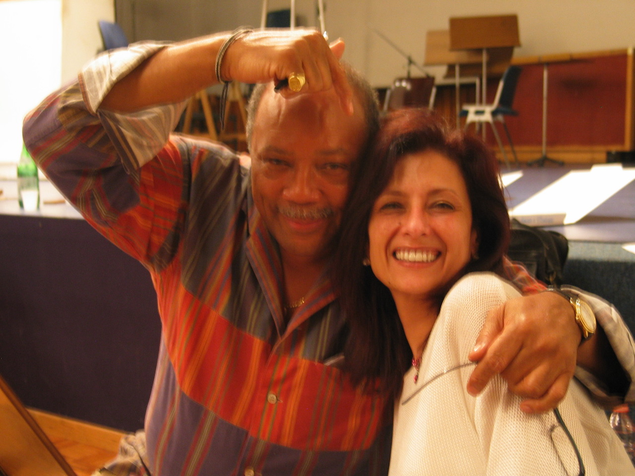 Dawn Elder Composer, Producer and manager Working with Quincy Jones in Rome on We are the Future 2004